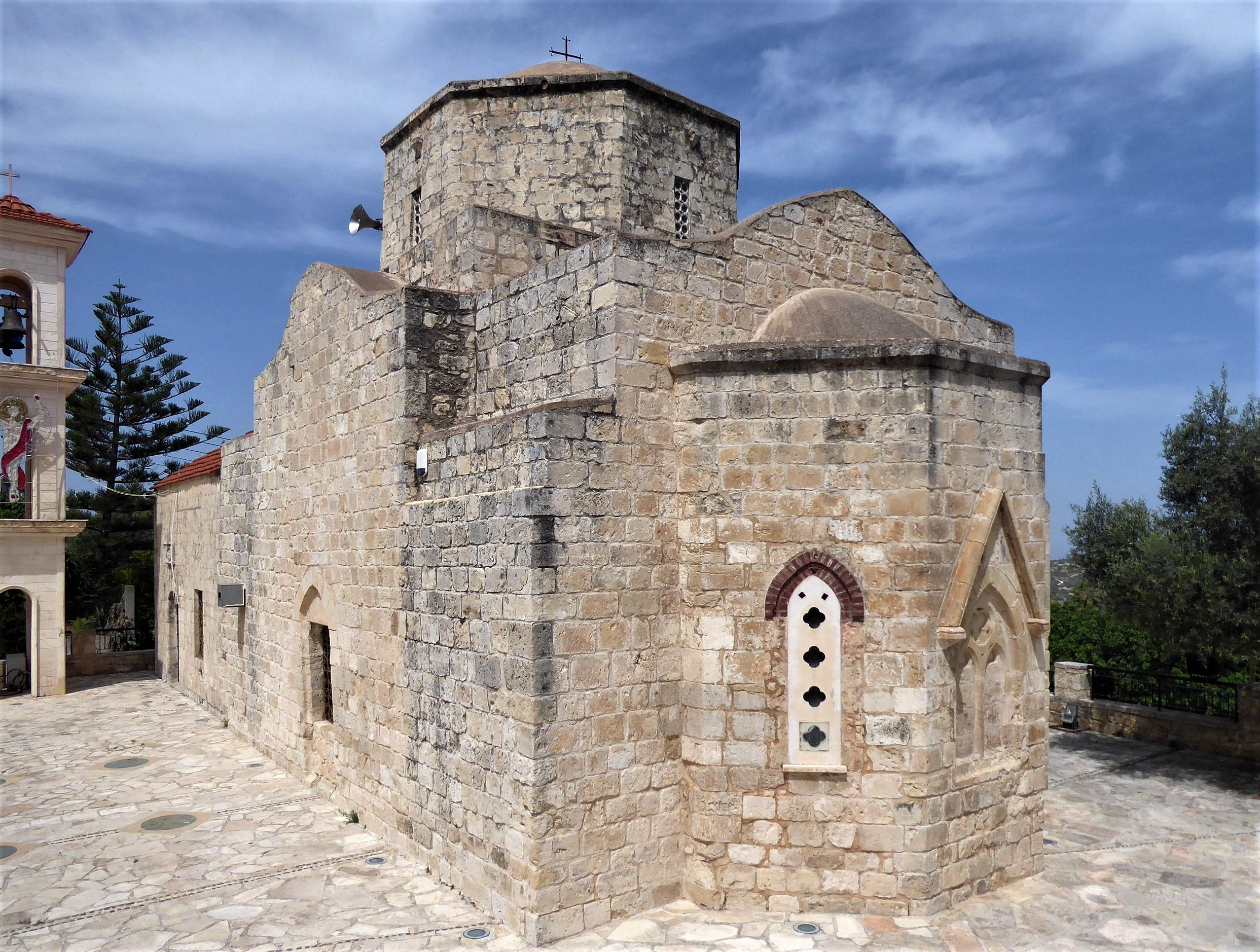 Panagia Chryseleousa (Lysos)